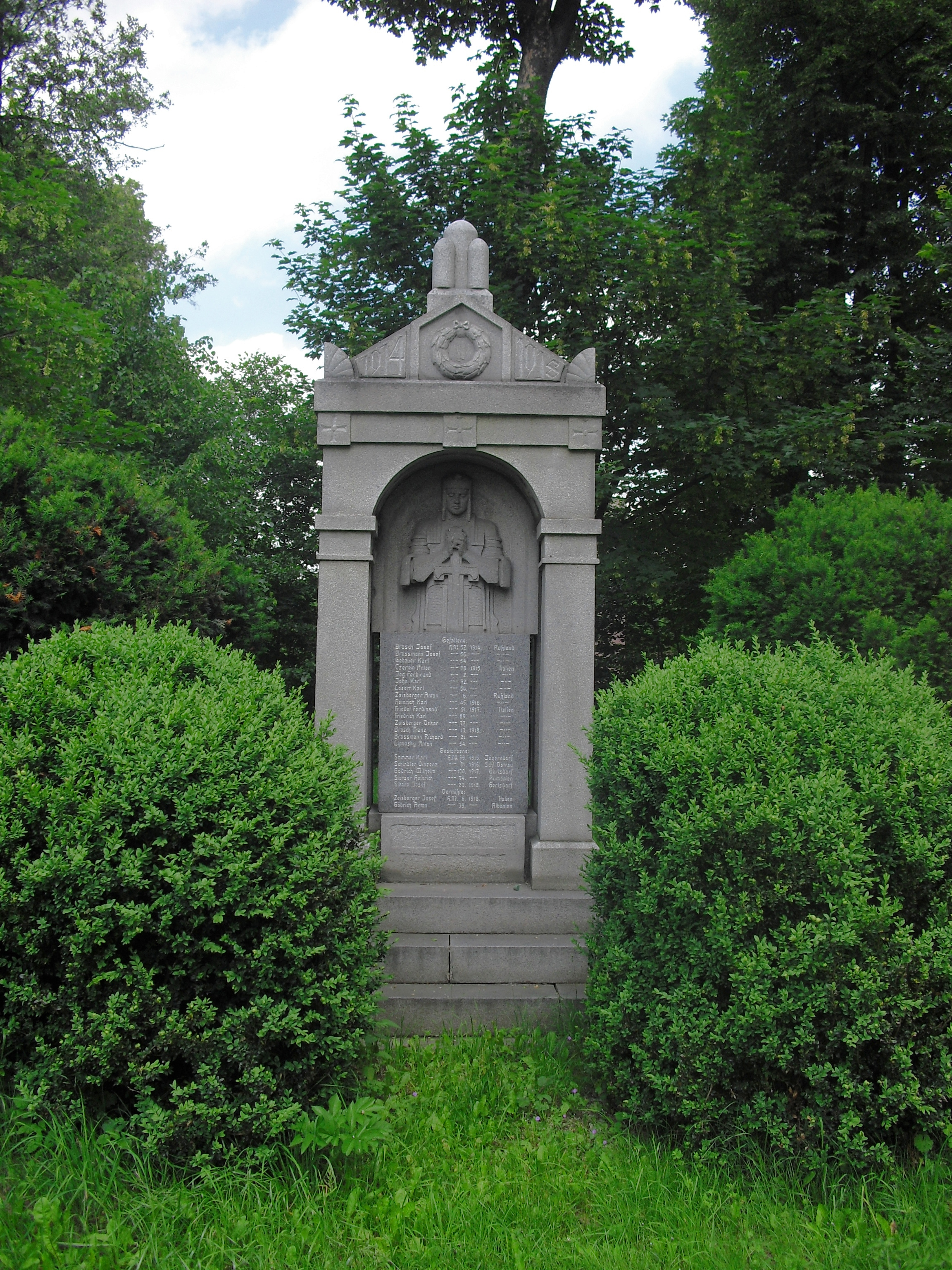 Fulnek, Nový Jičín District, Czech Republic, part Jerlochovice. Monument to victims of the First World War.